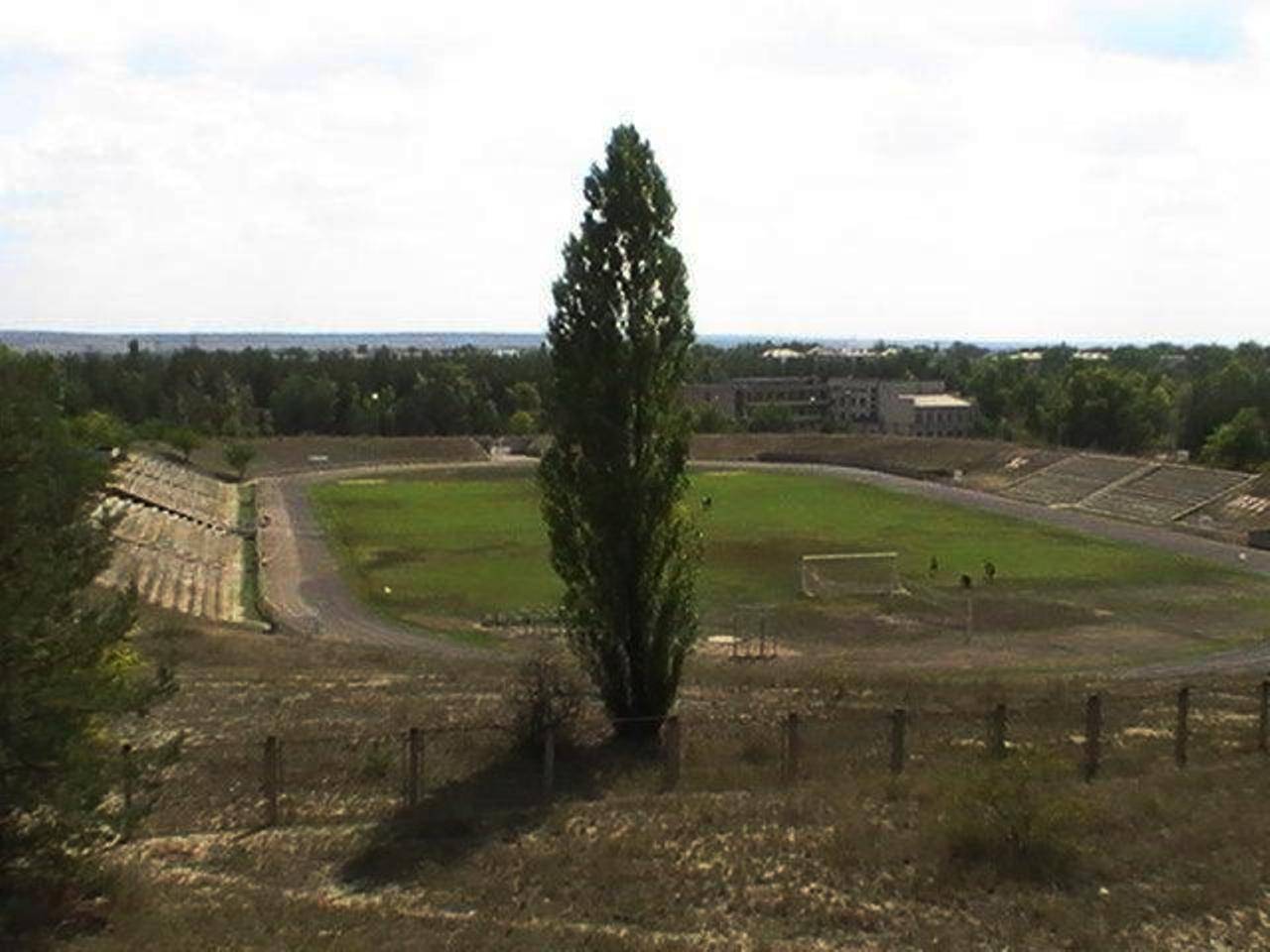 Enerhetyk Stadium in Shchastia, Novoaidar Raion, Luhansk Oblast, Ukraine